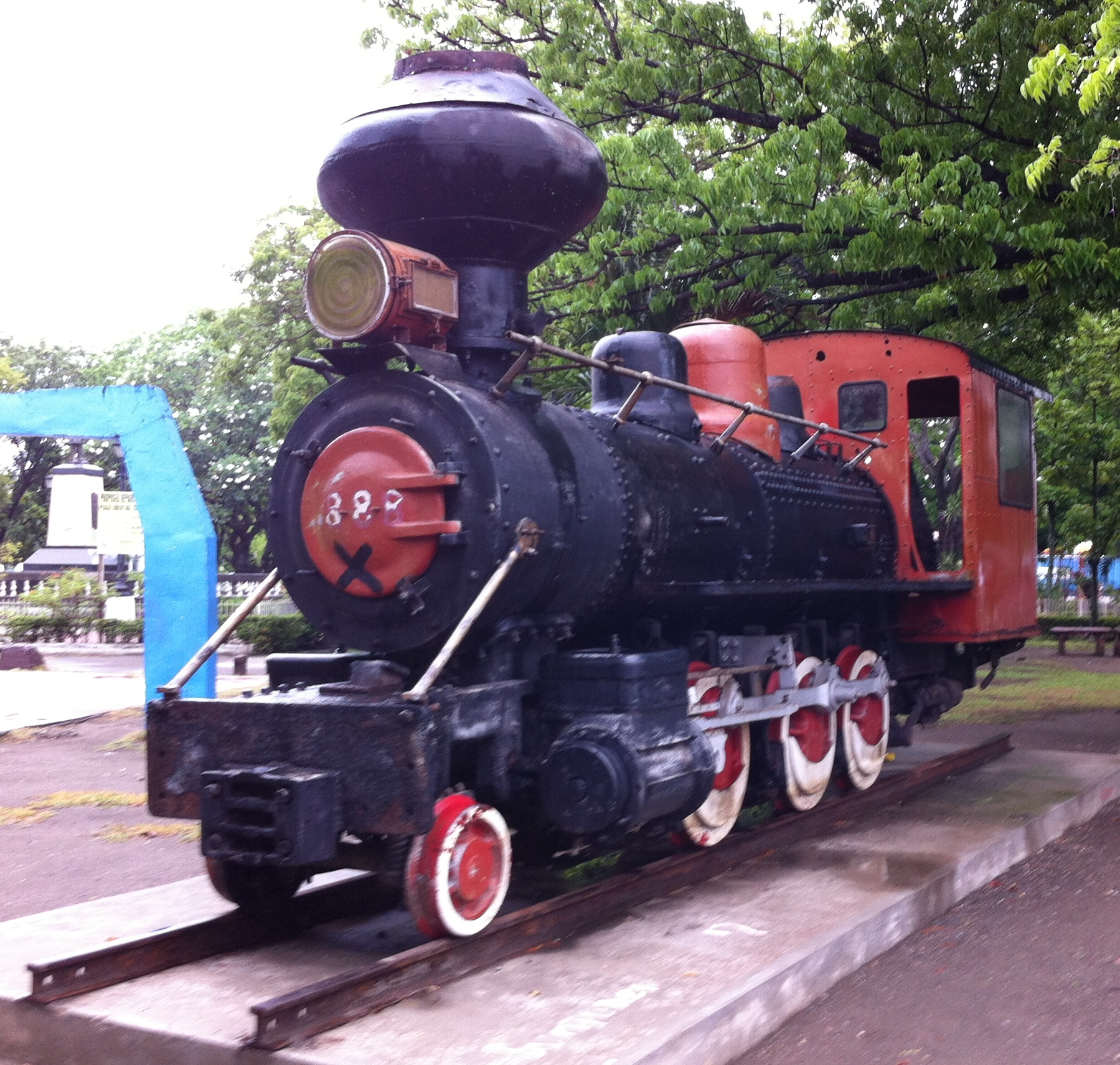 Engine of the Panay Railways on display in Plaza Libertad, Iloilo City. Locomotive number 888. A Mogul 2-6-0 model. A date below the boiler shows it was built on September 14, 1923 with boiler number 757 81D8 and was originally called train number 5434. It was donated to Iloilo City by Po Guan Bi and Conchita Uy Po. (Info take from marble plaque next to the engine's display.)